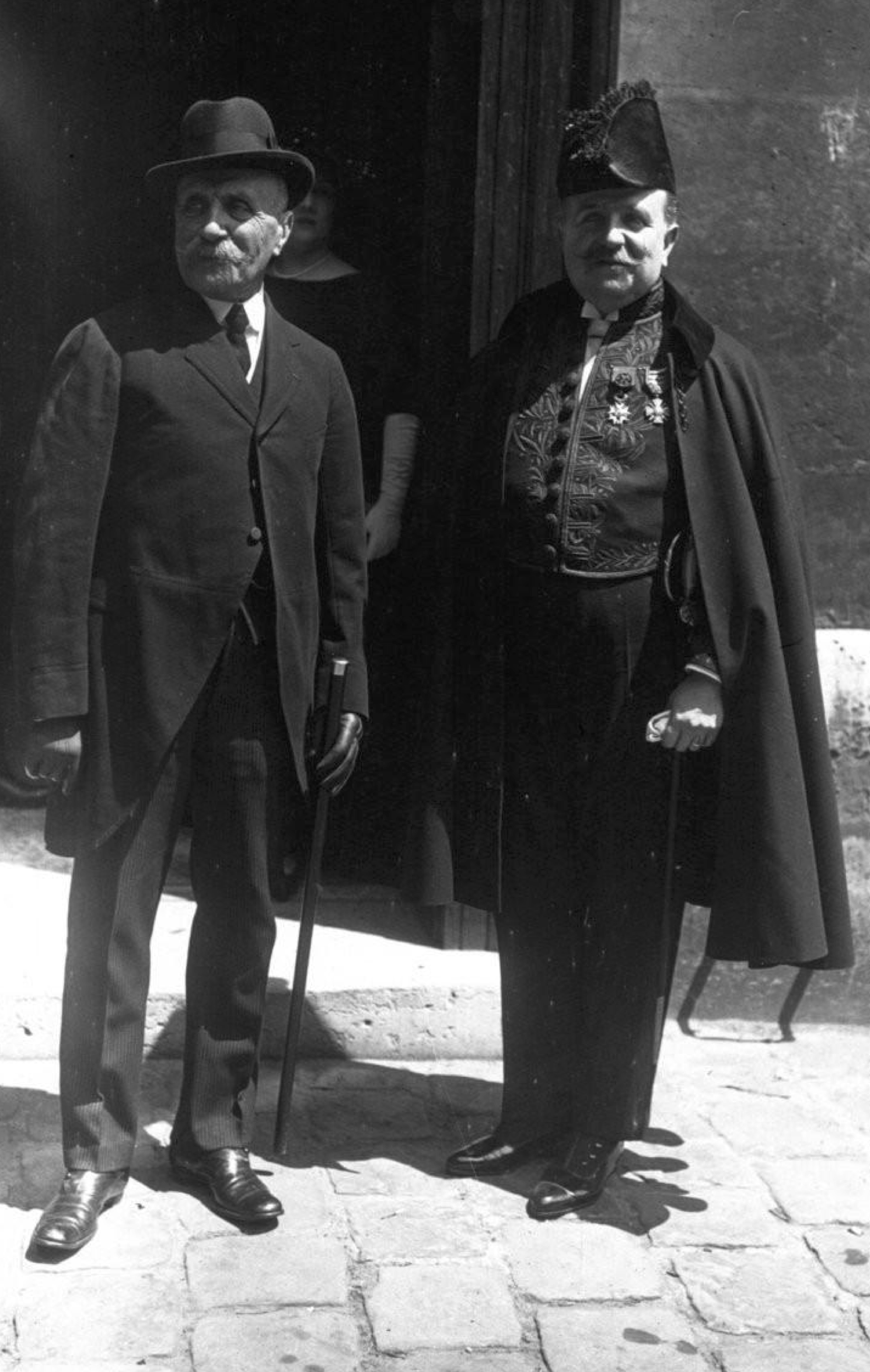 Robert de Flers en compagnie du Maréchal Foch